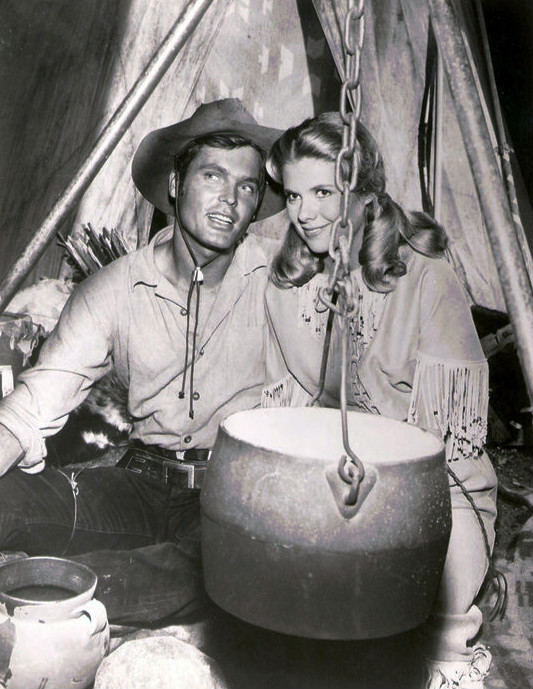 Publicity photo of Ty Hardin and Nina Shipman from the television program Bronco (TV series), aka Cheyenne: Bronco and The Cheyenne Show: Bronco.